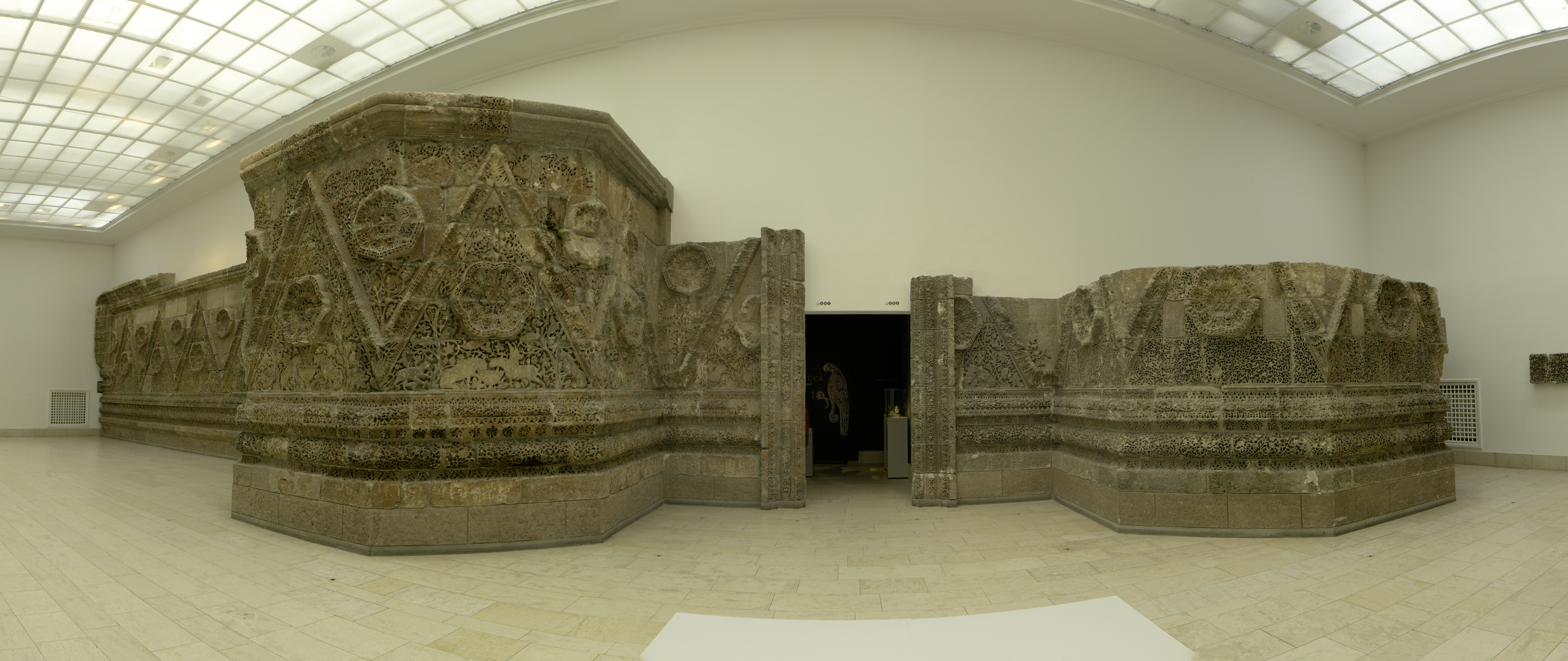 Mshatta facade Pergamonmuseum Berlin